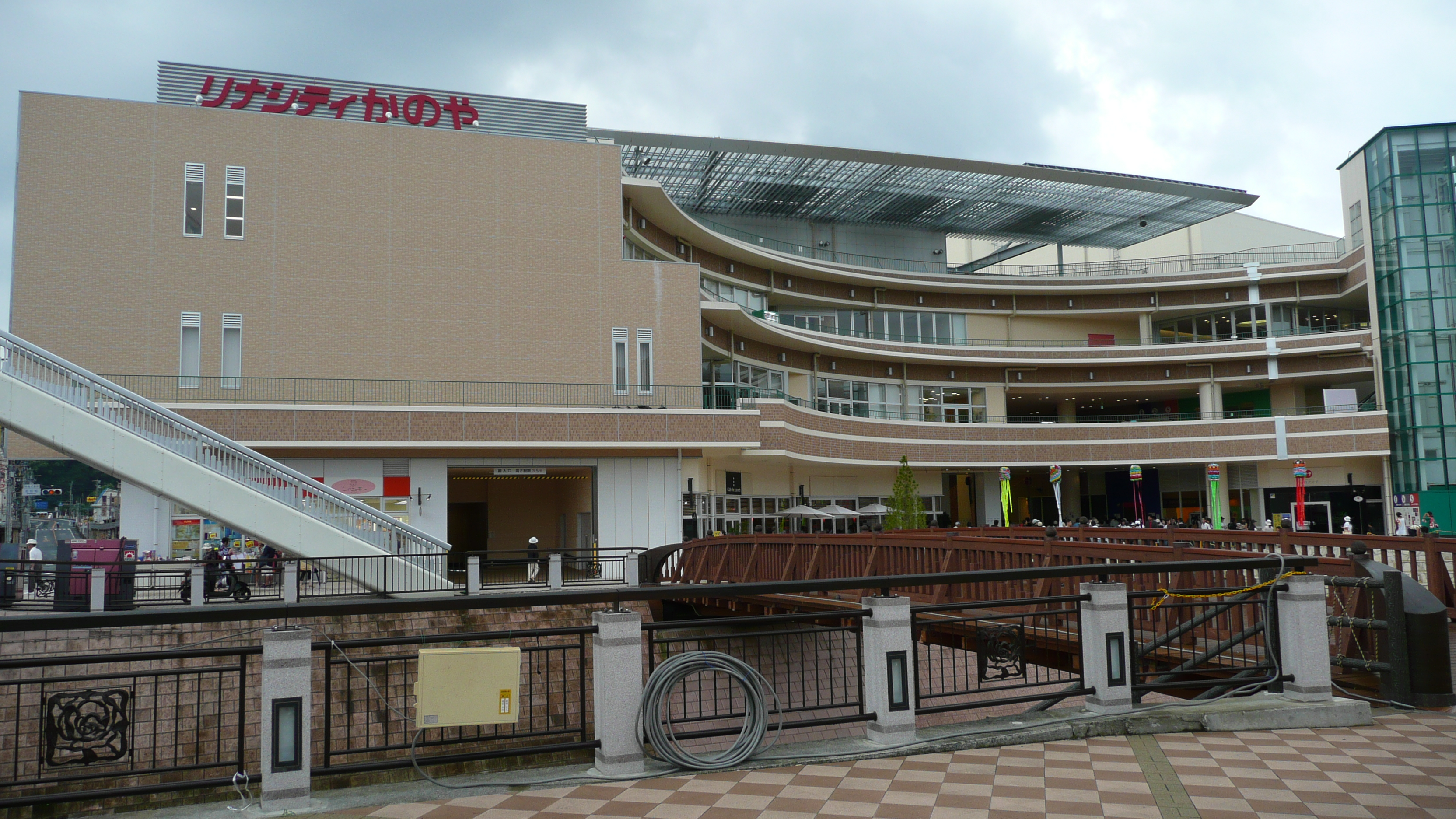 Rena City Kanoya (Kanoya City Citizen Community Center - Kanoya City, Kagoshima, Japan)